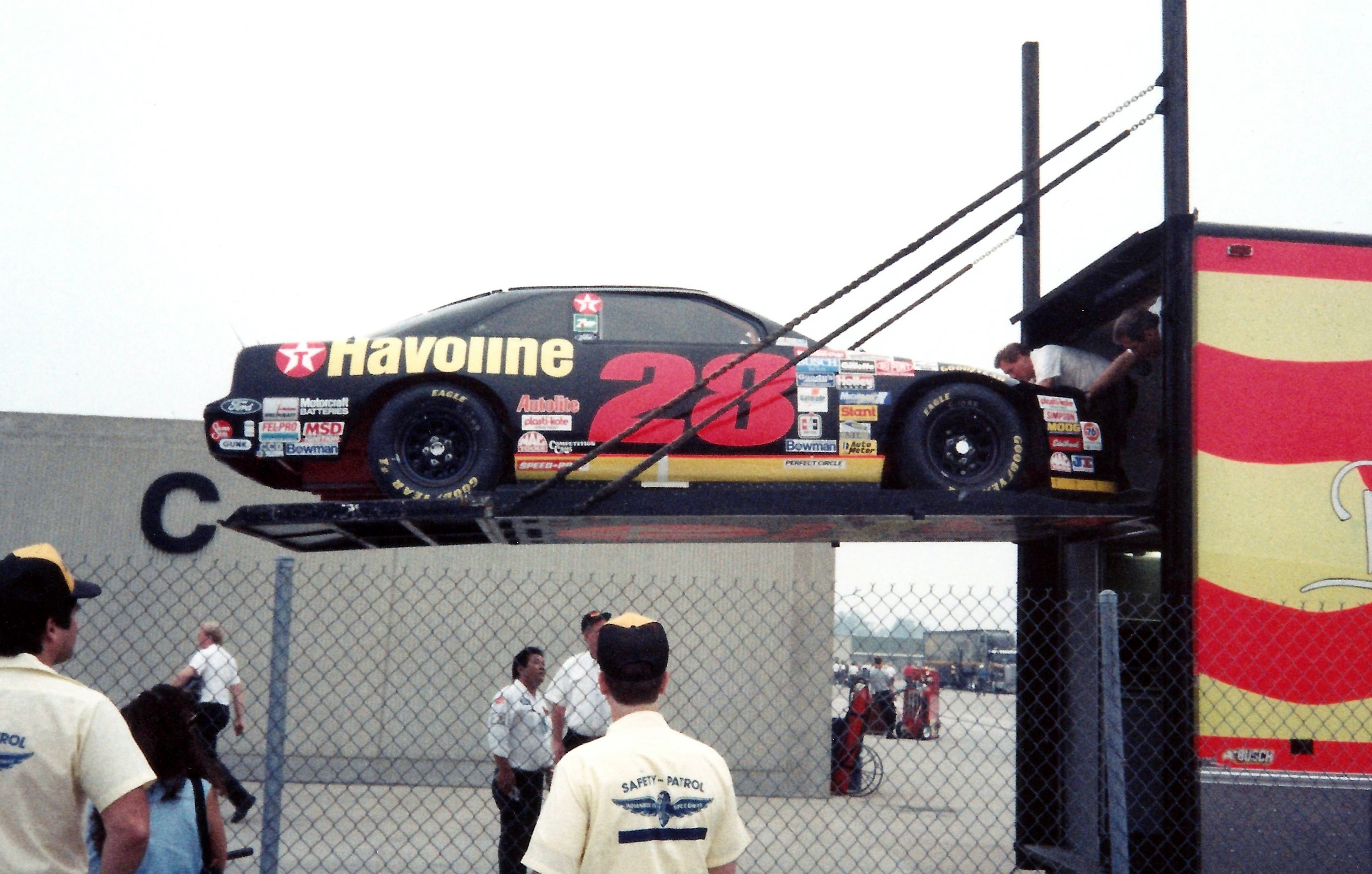 1993 NASCAR Brickyard 400 Open Test at the Indianapolis Motor Speedway. The #28 Robert Yates Racing car being unloaded from the transporter. It was being driven at the test by Lake Speed, since Davey Allison had been killed in July 1993.